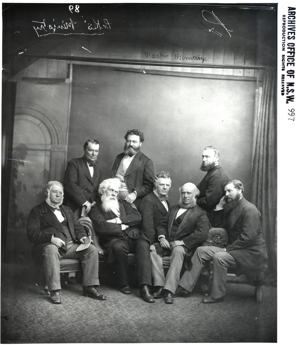 Title: Sir Henry Parkes and members of his Ministry Dated: No date Digital ID: 4481_a026_000784 Rights: We'd love to hear from you if you use our photos/documents. Many other photos in our collection are available to view and browse on our website using Photo Investigator.